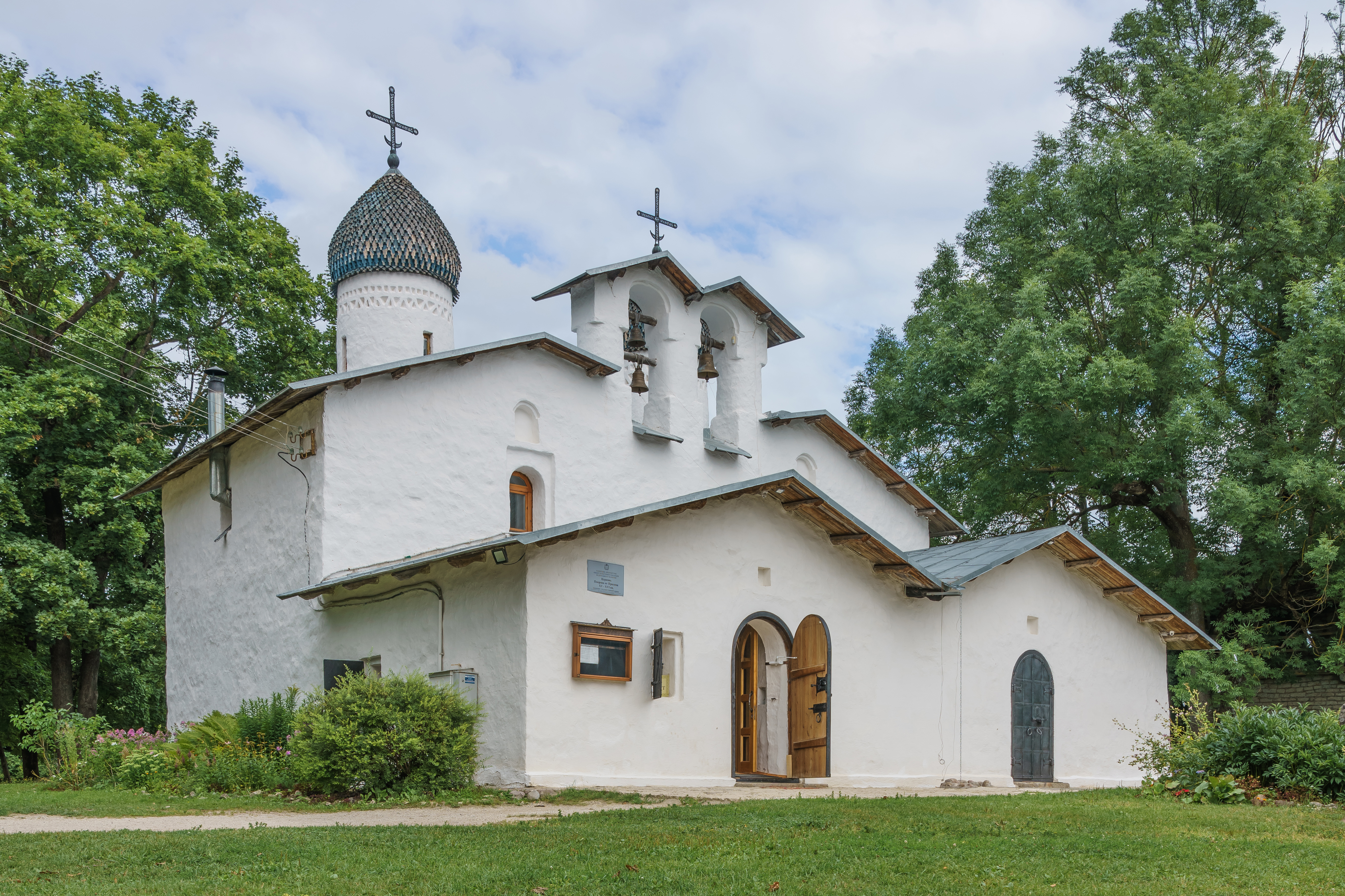 Intercession Church «at Prolom» in Pskov, Russia